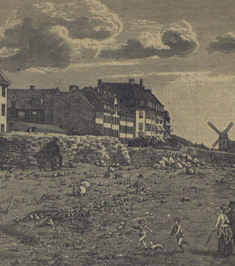 The ruians of Jarmers Tårn in Copenhagen, Denmark